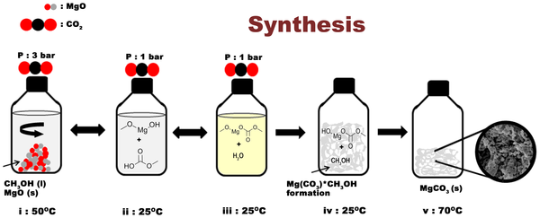 Synthesis of Upsalite